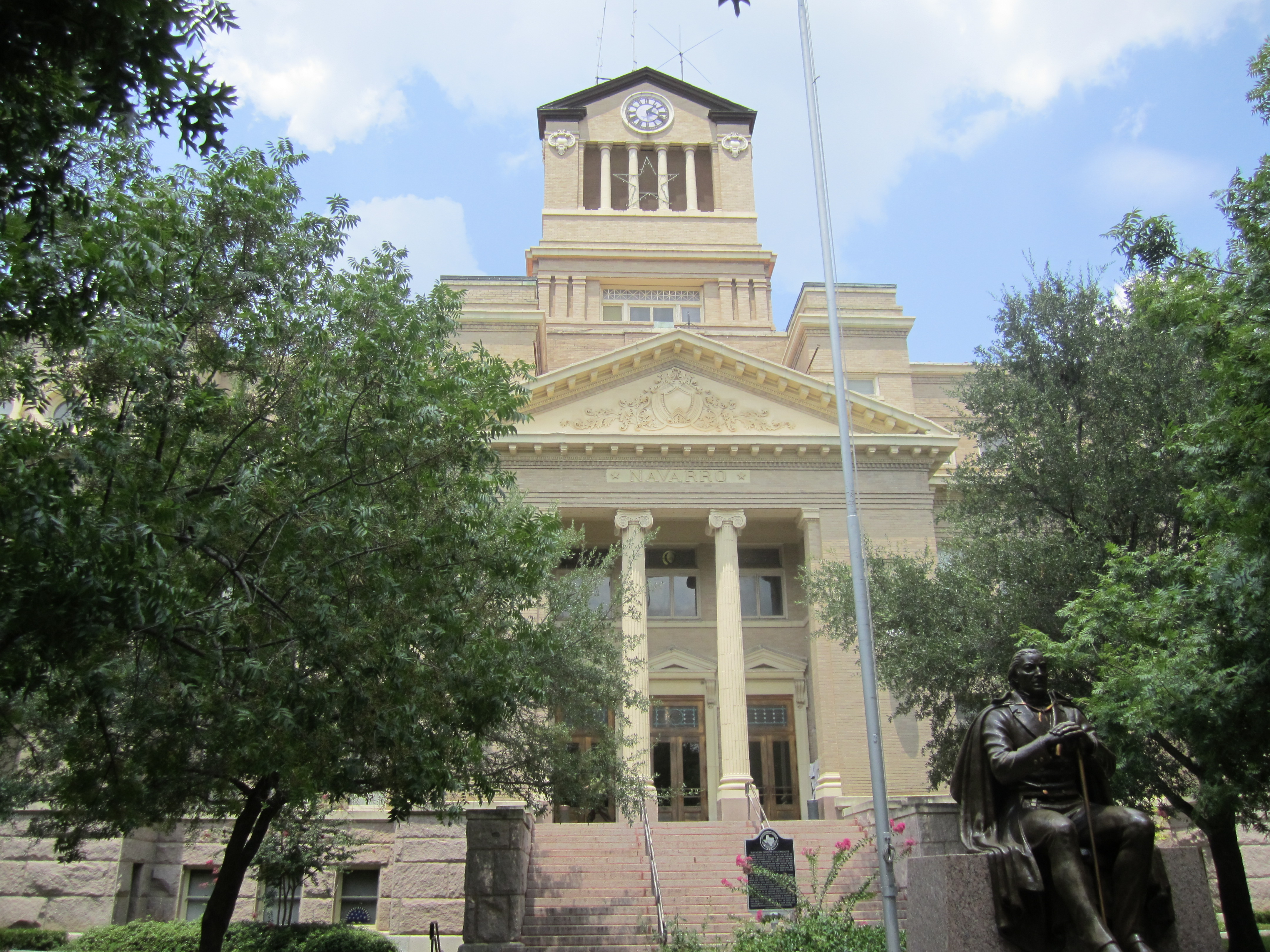 I took photo with Canon camera in Corsicana, TX.